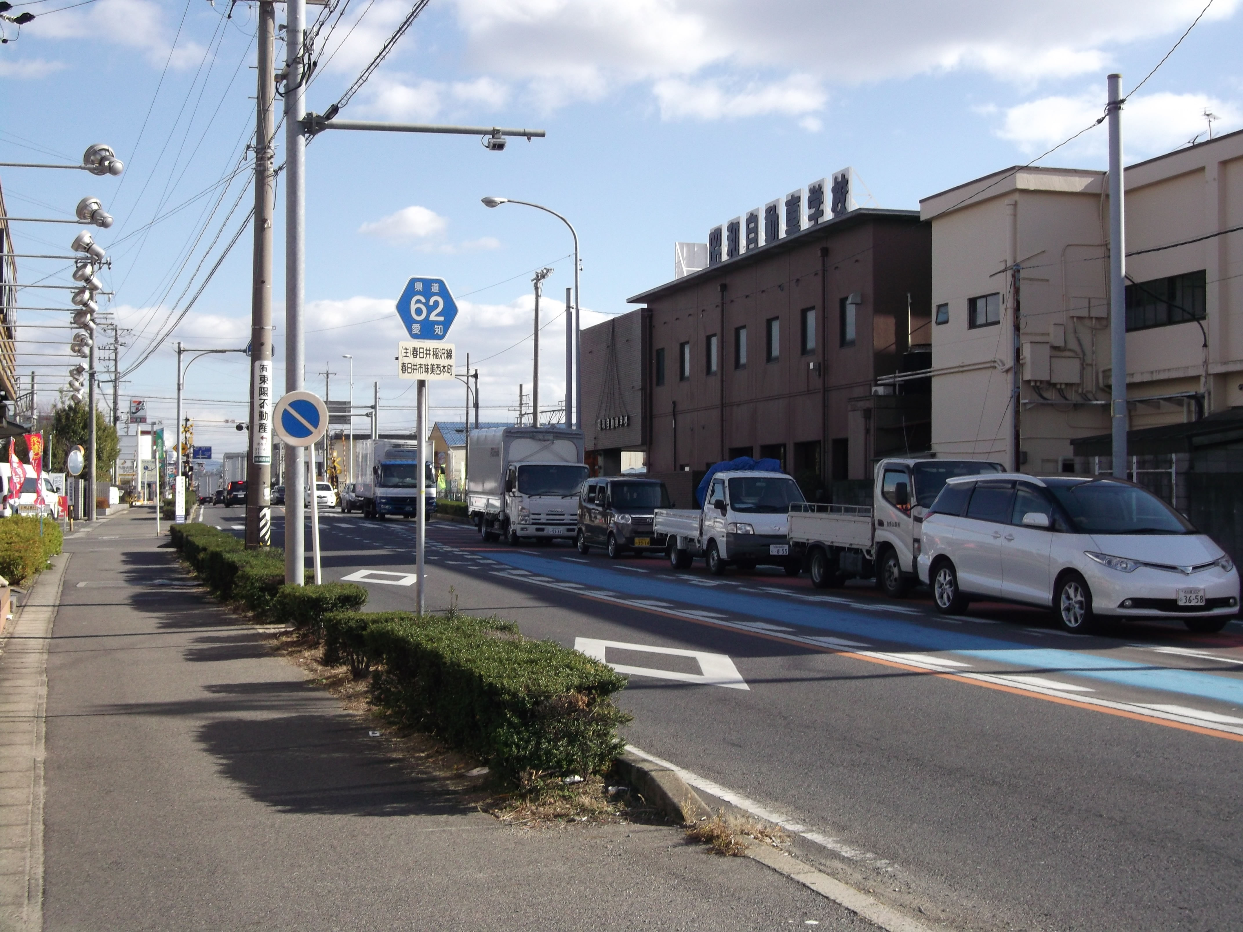 The Aichi Prefectural Road Route 62 in Ajiyoshi-Nishihonmachi, Kasugai City